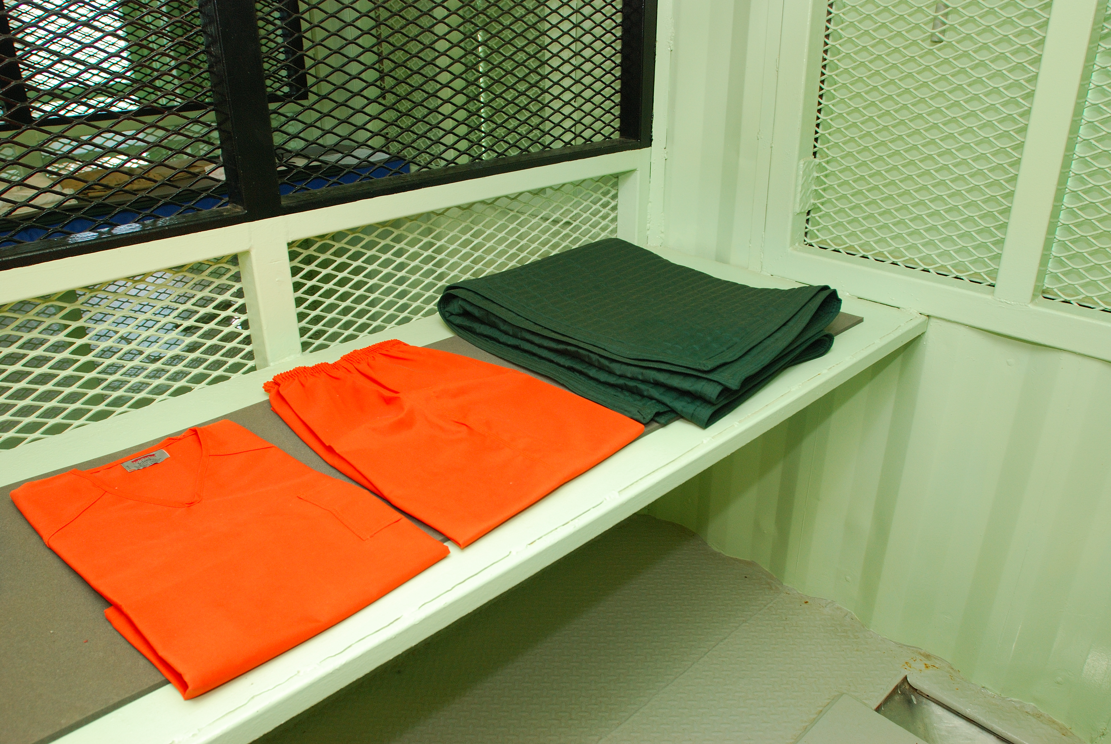 GUANTANAMO BAY, Cuba – Items given to non-compliant detainees in Camp 1 at Joint Task Force Guantanamo. All detainees, regardless of compliancy receive a Koran, prayer mat, prayer beads and cap. Sept. 27, 2007. (JTF Guantanamo photo by Navy Petty Officer 1st Class Michael Billings)